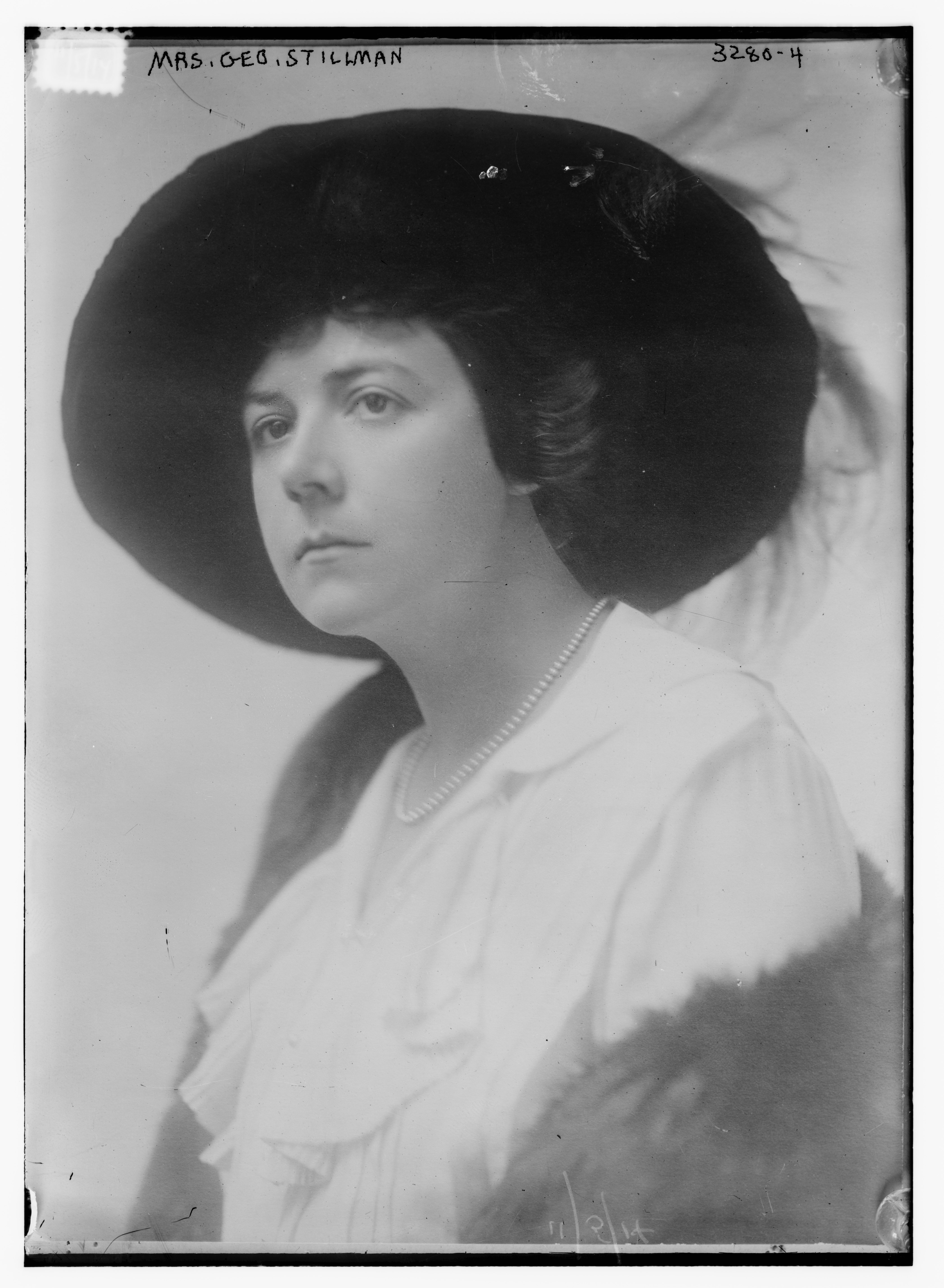 Title: Mrs. Geo. Stillman Abstract/medium: 1 negative : glass ; 5 x 7 in. or smaller.